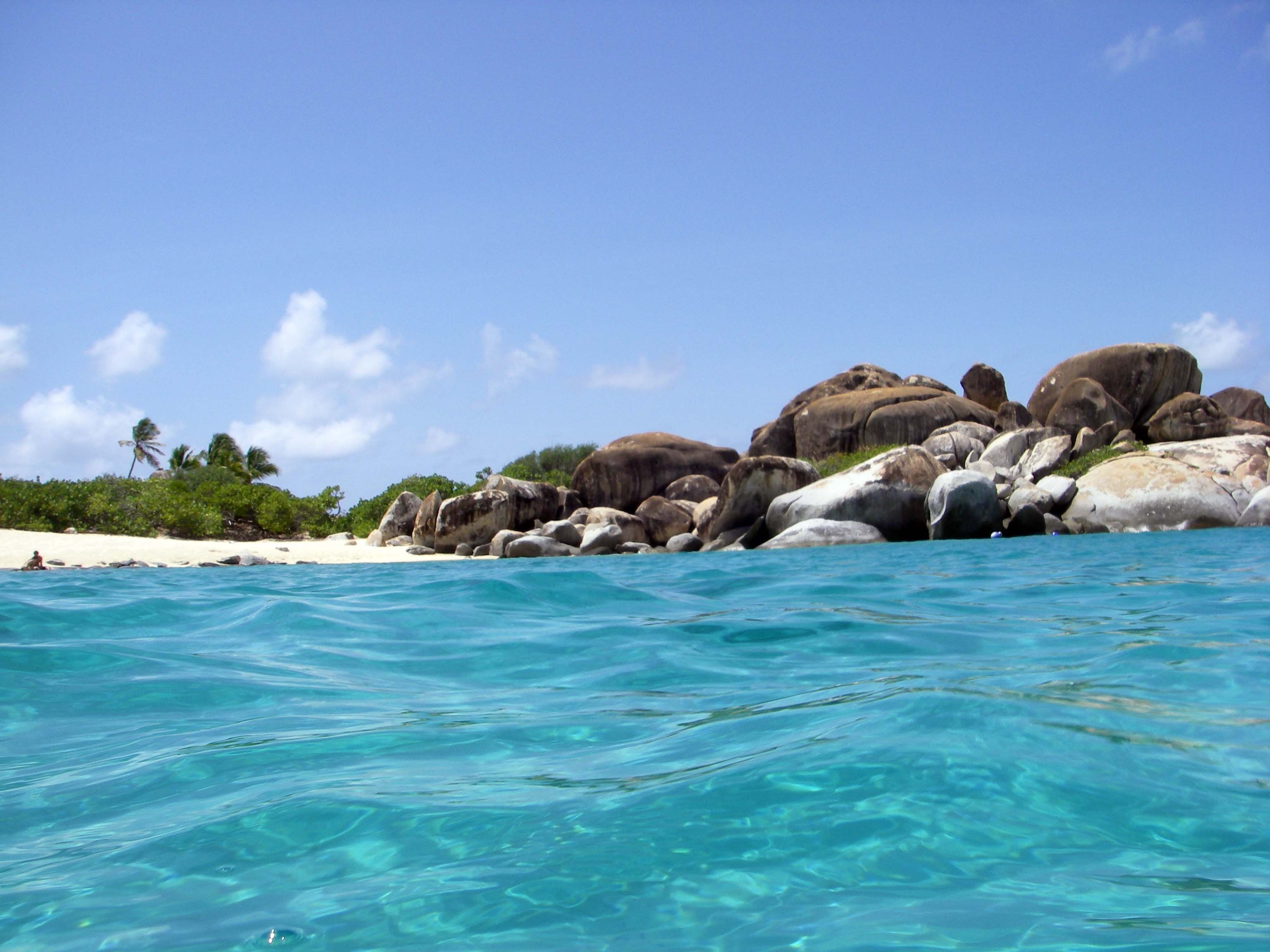 View of the beach at The Baths